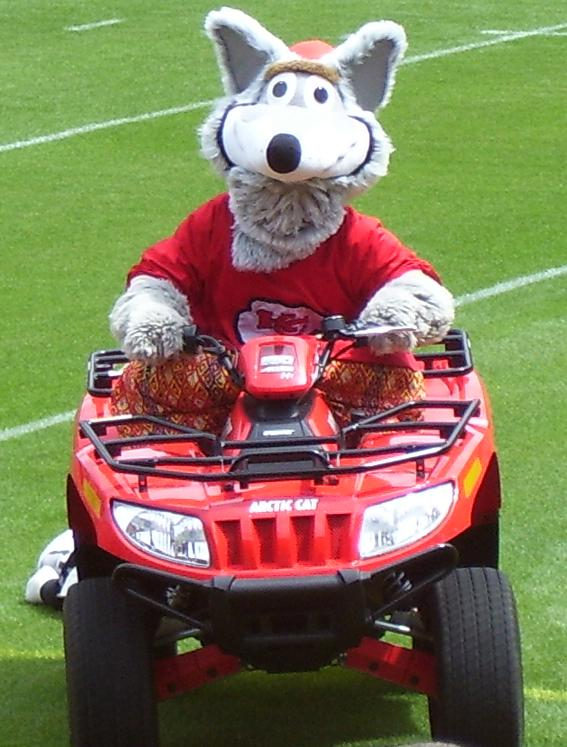 KC Wolf, mascot of the Kansas City Chiefs on a Fourwheeler motorbike.